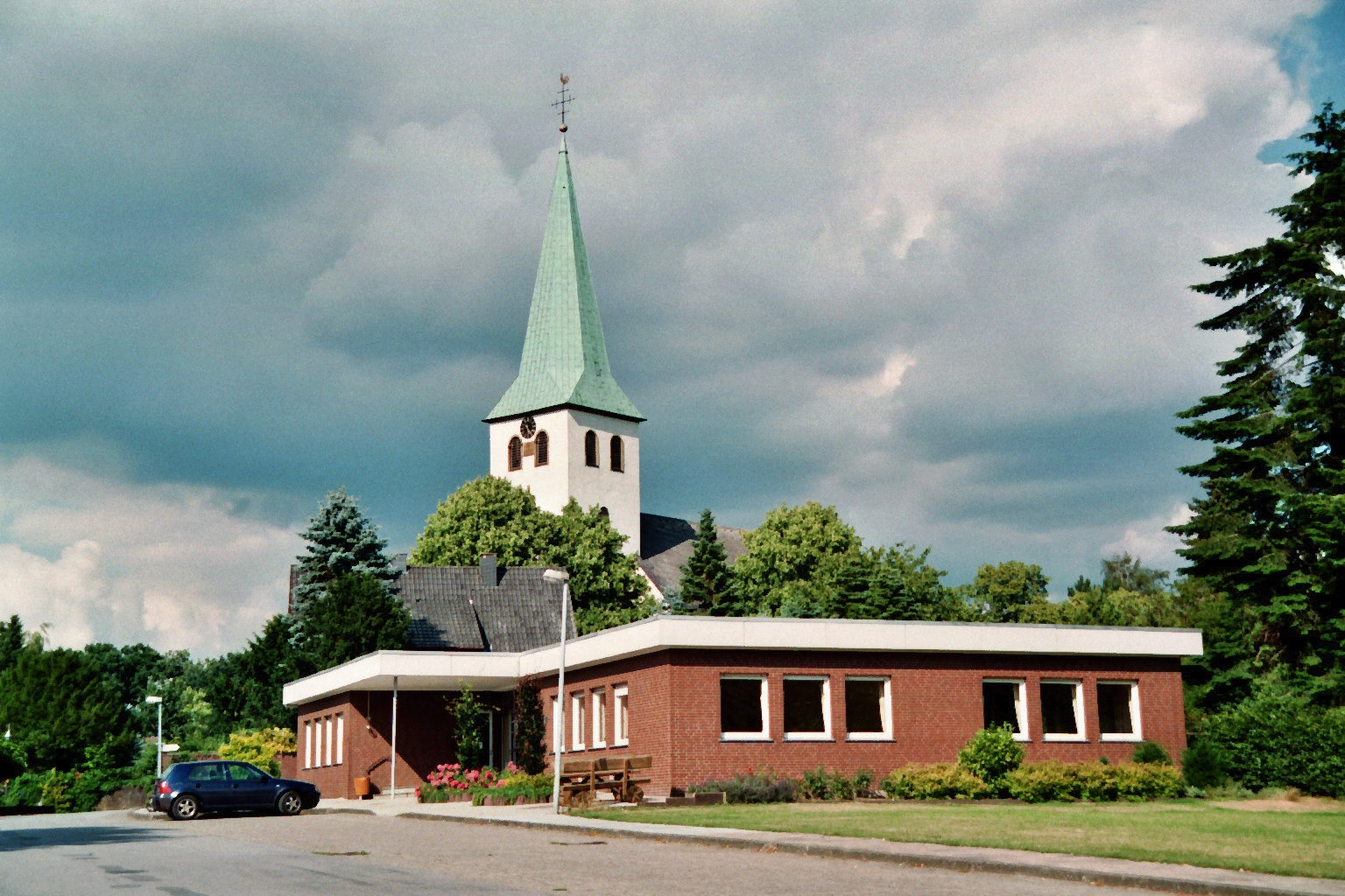 Roman catholic Saint Catherine church in Voltlage, Samtgemeinde Neuenkirchen, Landkreis Osnabrück, Lower Saxony, Germany.